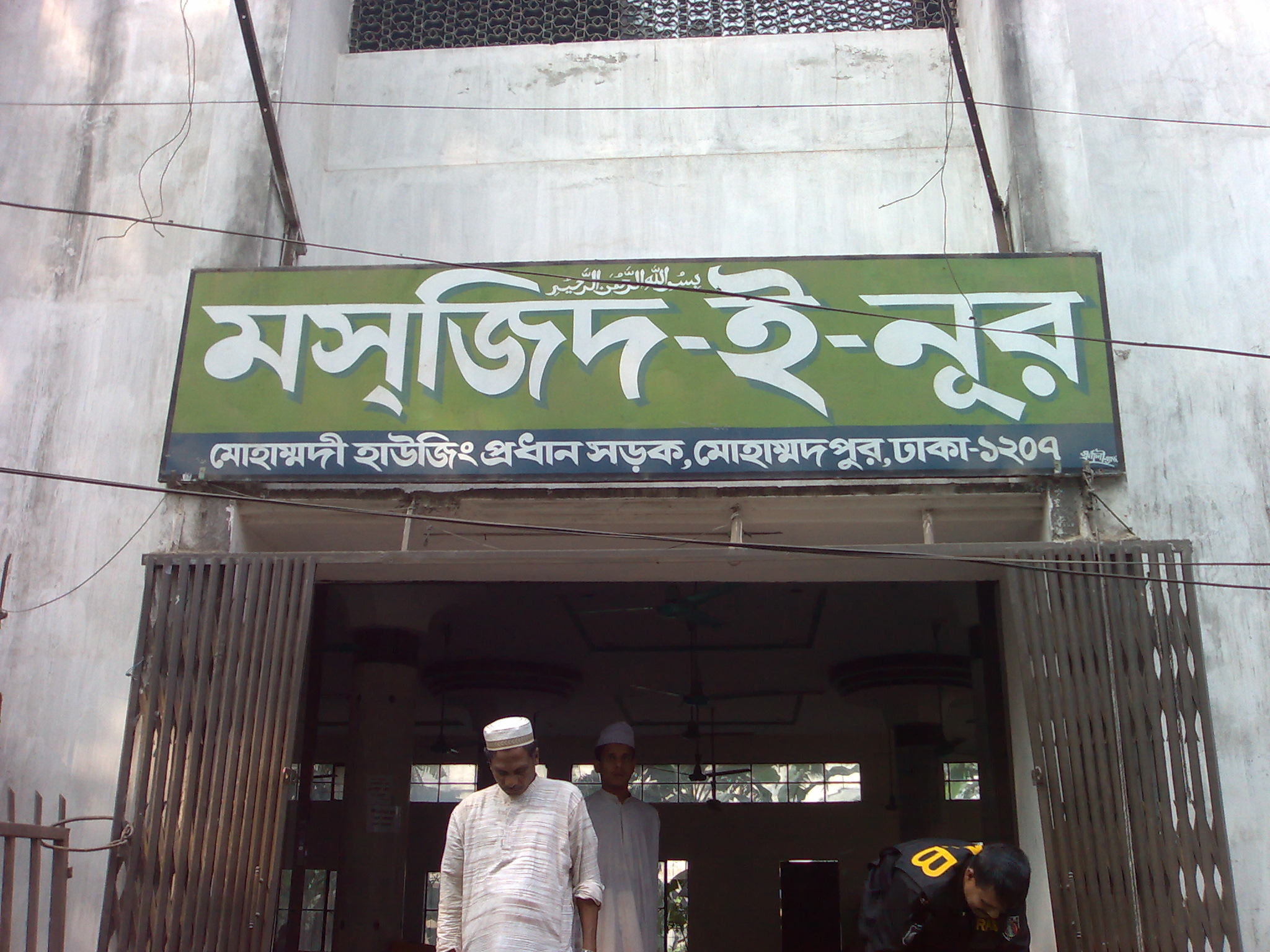 A mosque at Mohammadpur Thana, Dhaka, Bangladesh.